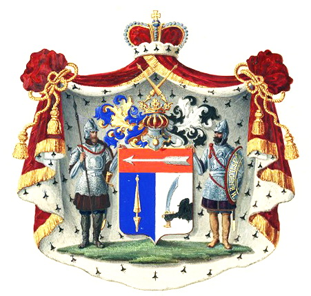 Coat of Arms of Saburov family